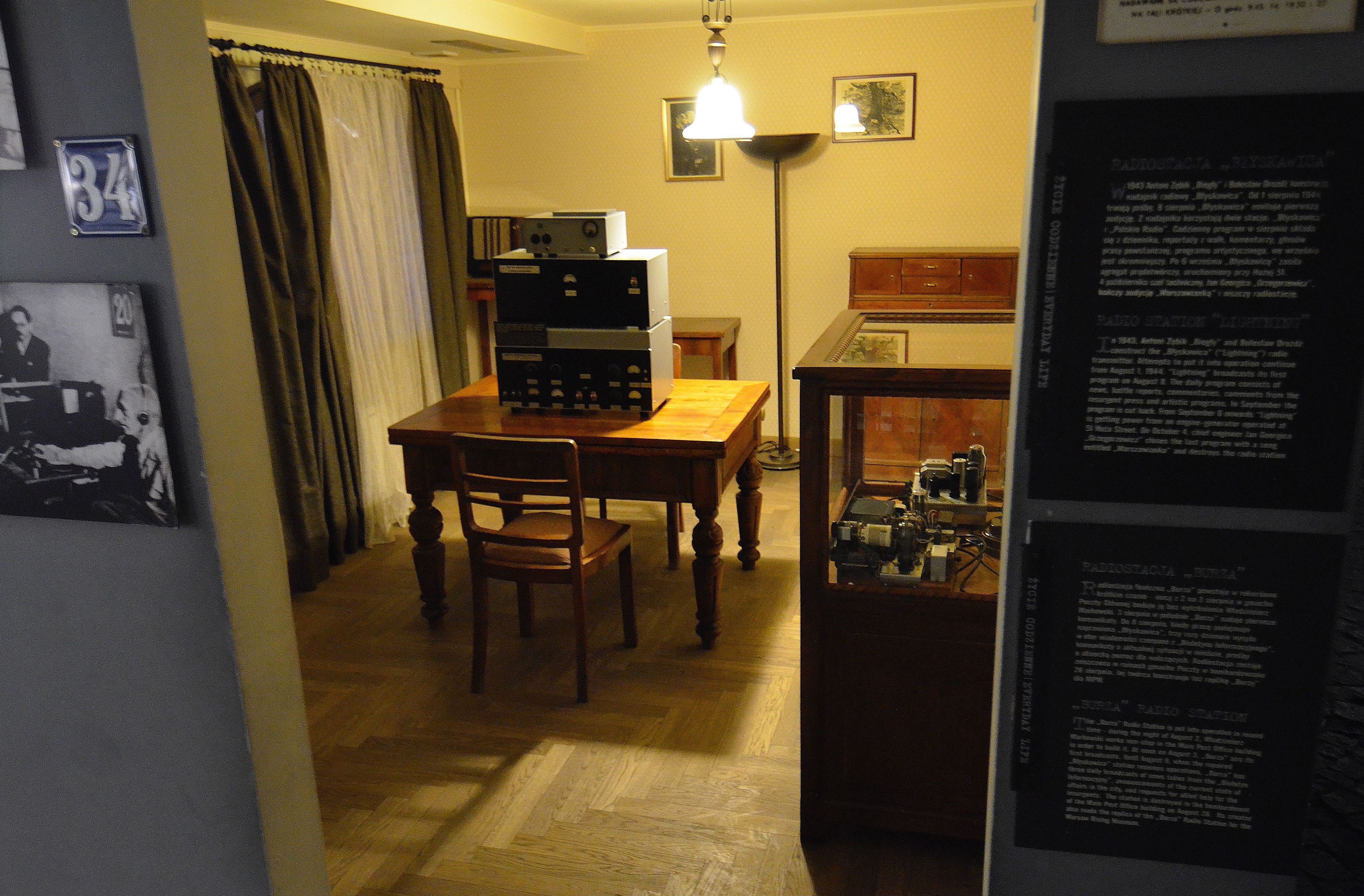 A replica of "Błyskawica" radio station at the Warsaw Uprising Museum